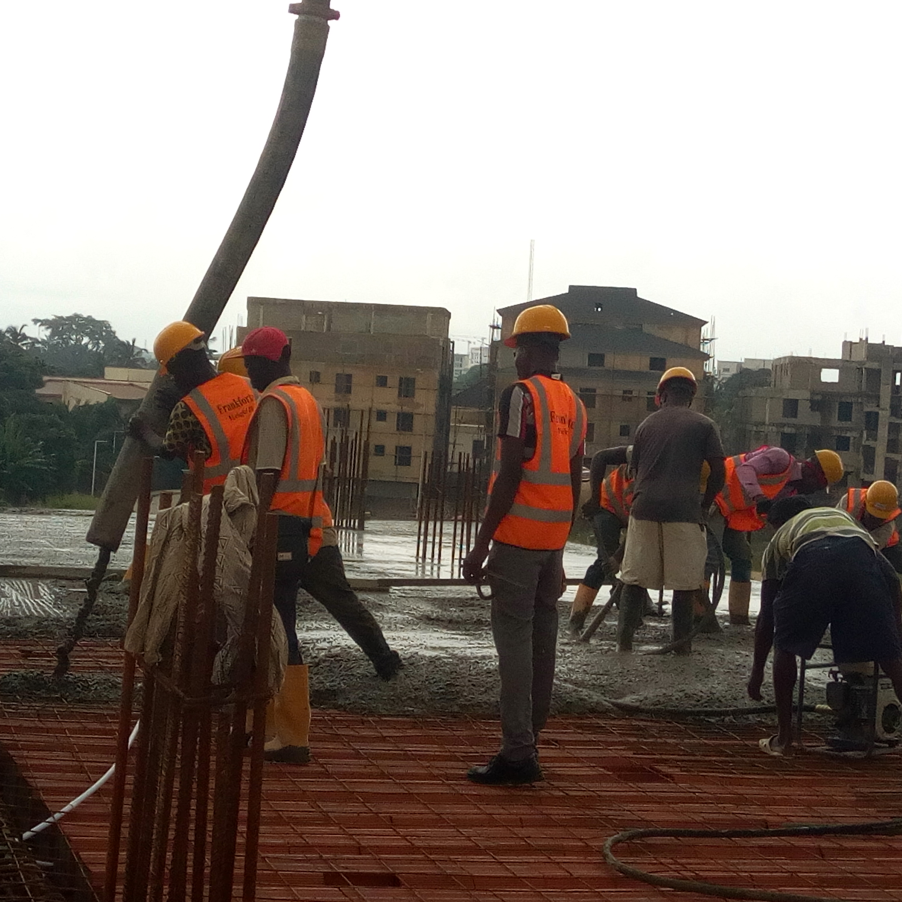 the casting of a suspended floor made of rib slabs by Construction workers in Lagos, Nigeria This is an image of "African people at work" from Nigeria